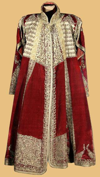 Costume of a dignitary Local workshop late 18th c. Appliqués of silver-gilt thread on velvet h = 151 cm